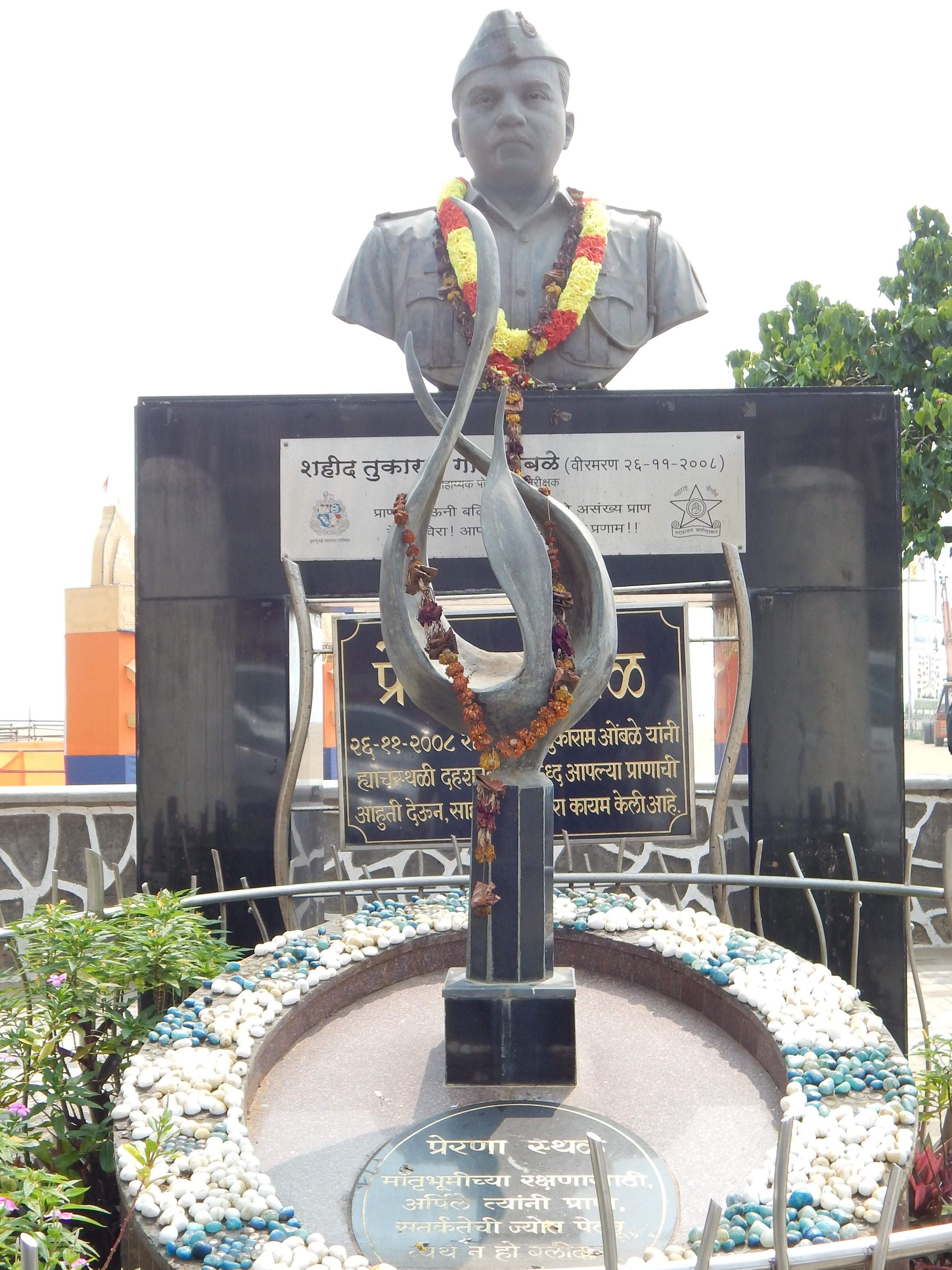 Tukaram Gopal Omble was an Assistant Sub-Inspector of the Mumbai Police and was killed in action while fighting with the terrorists during the 2008 Mumbai attacks, at Girgaum Chowpatty Mumbai. The Govt. of Maharastra has stated a memorial of him, at the place he was shot by the terrorist(s) and named the place as Prerana Sthala (The place of inspiration) .